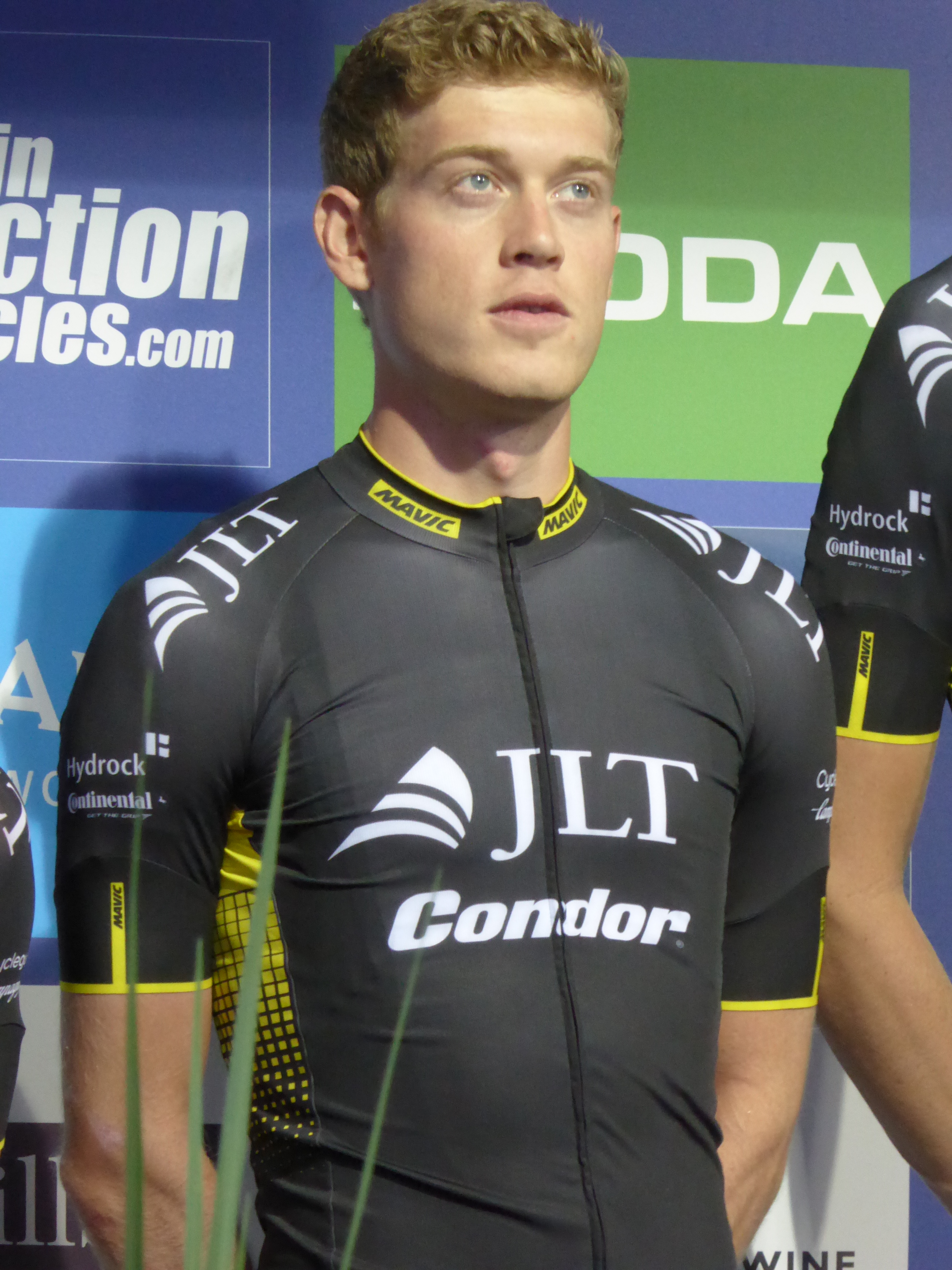 Alistair Slater (JLT-Condor), pictured at the 2016 Tour of Britain team presentation in Glasgow on 3 September 2016.